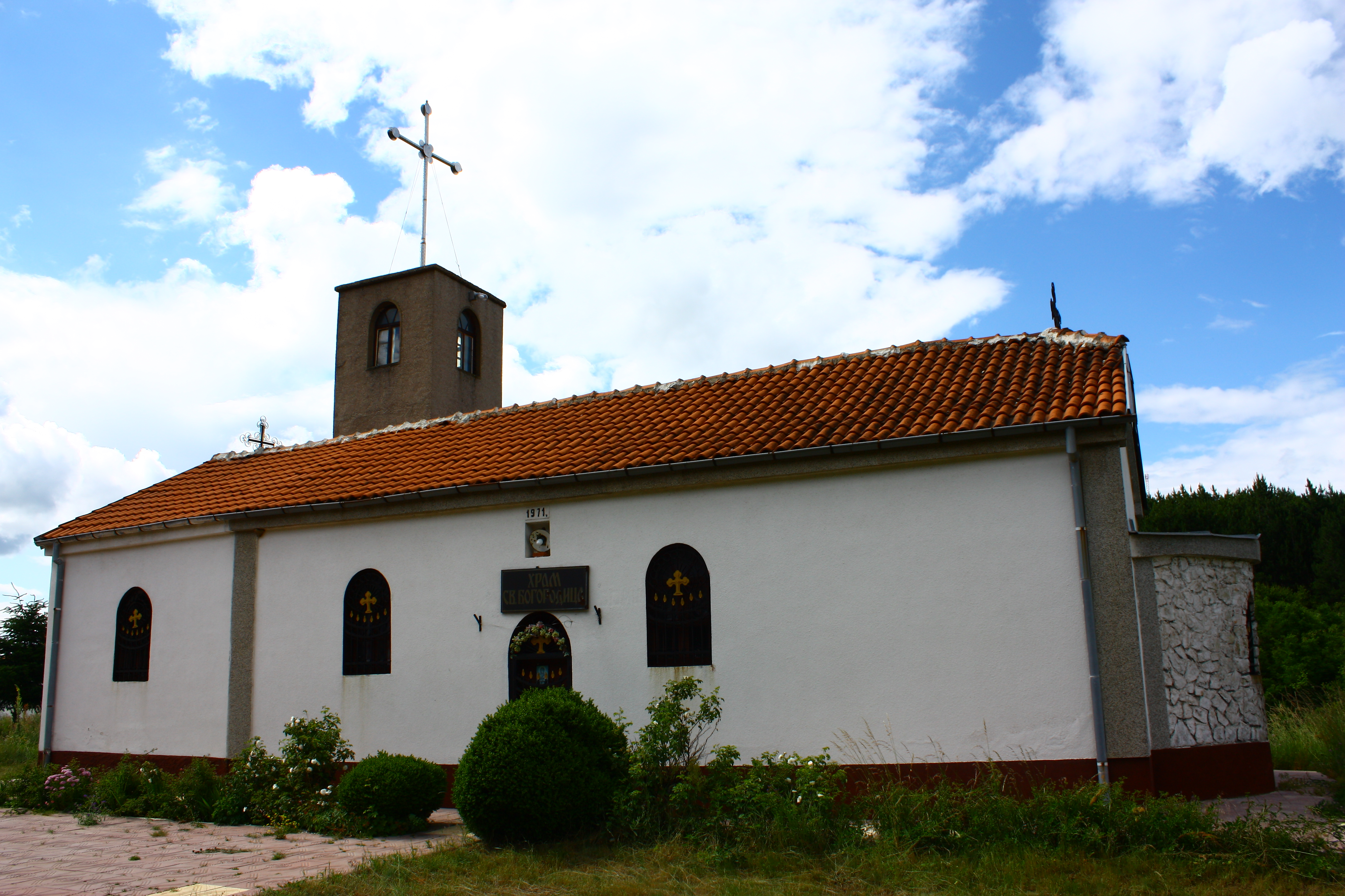 St. Virgin Mary Church in Ǵavato, Bitola, Macedonia